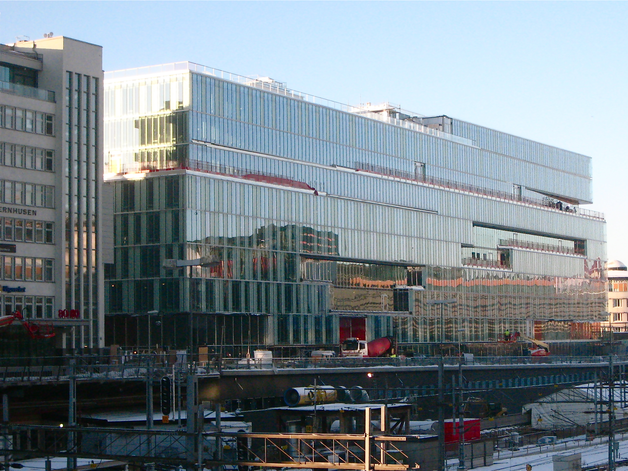 Kungsbrohuset